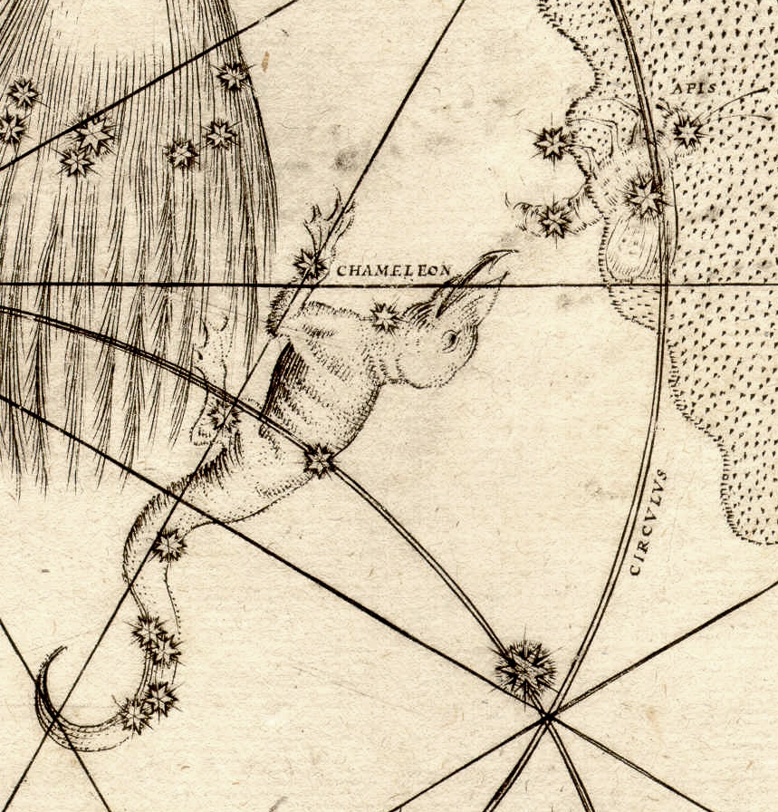 Musca (as Apis) seen being eaten by Chamaeleon in Johann Bayer's Uranometria of 1603, the first celestial atlas to include the southern constellations.